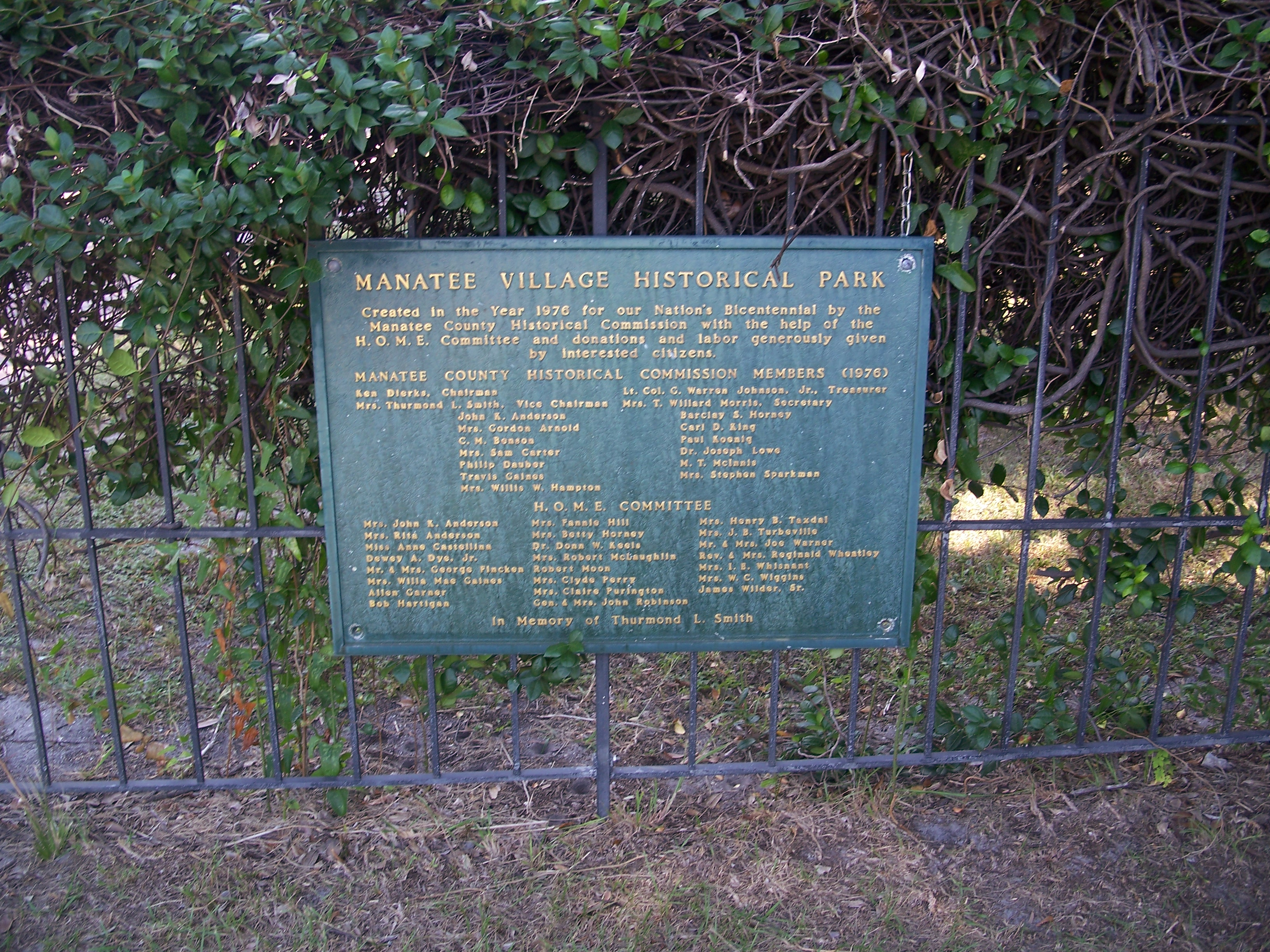 Bradenton, Florida: Manatee Village Historical Park: Commemorative plaque